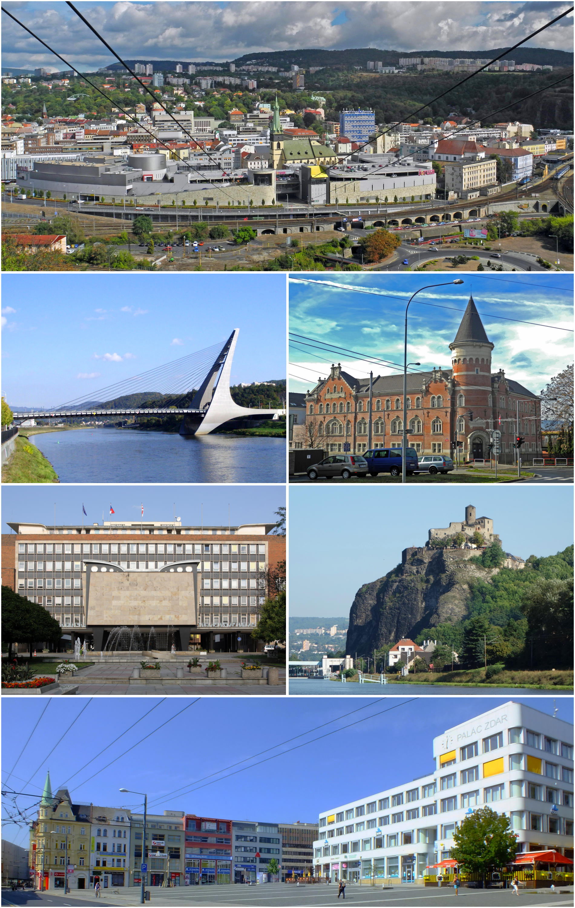 Ústí nad Labem city, Czech republic. From top: city centre view, Mariánský most, Městské lázně, City Hall, Střekov castle, Mírové náměstí.